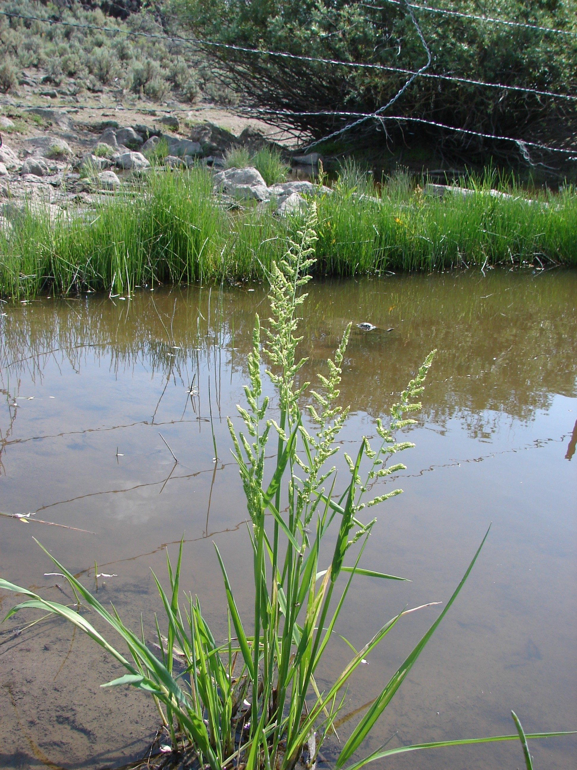 Beckmannia syzigachne Common name: American Sloughgrass This image or file is a work of a United States Department of Agriculture employee, taken or made as part of that person's official duties. As a work of the U.S. federal government, the image is in the public domain.